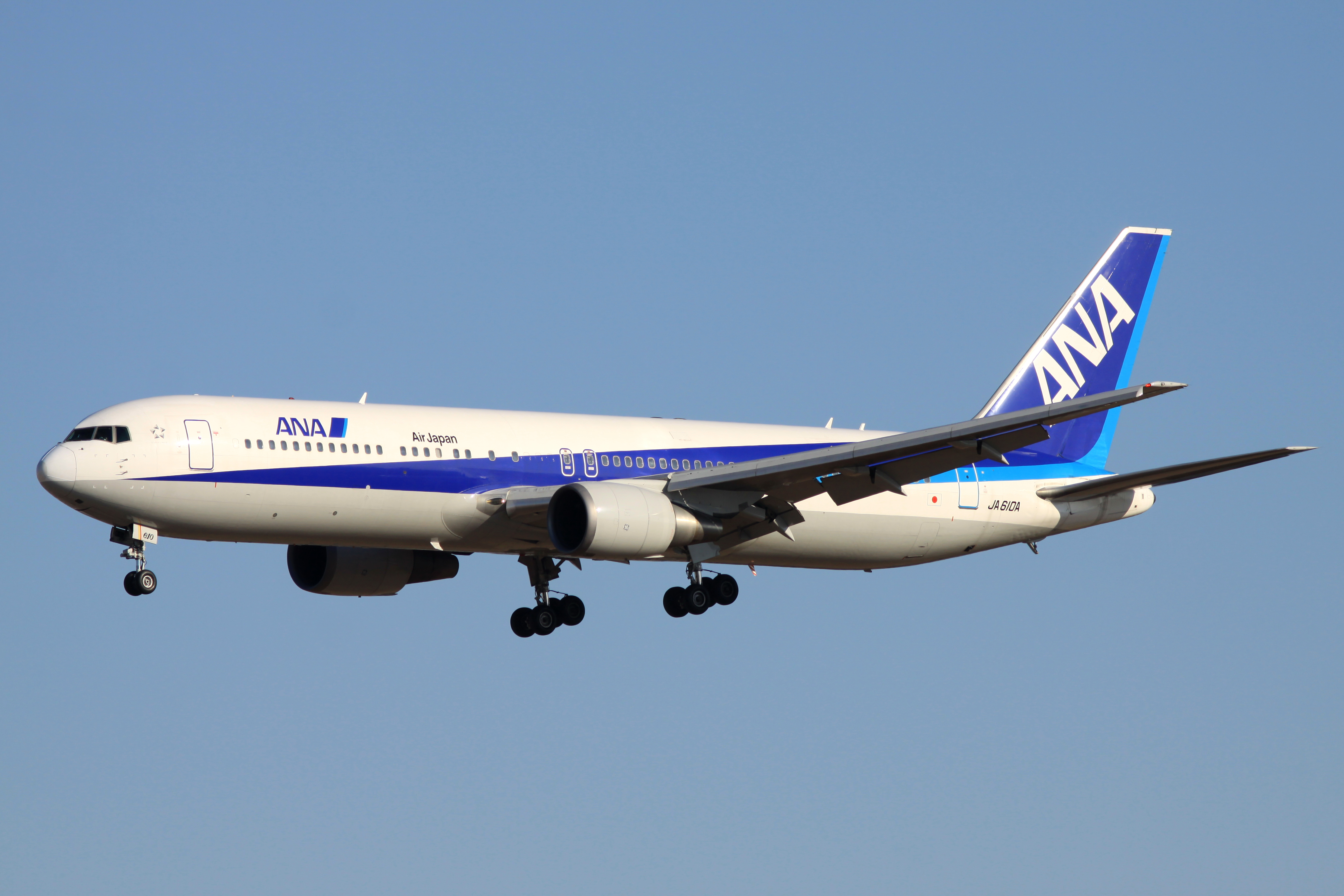 Final approach to Runway 34L, Narita International Airport, Boeing 767-381ER, c/n:32979, All Nippon Airways, Operated by Air Japan